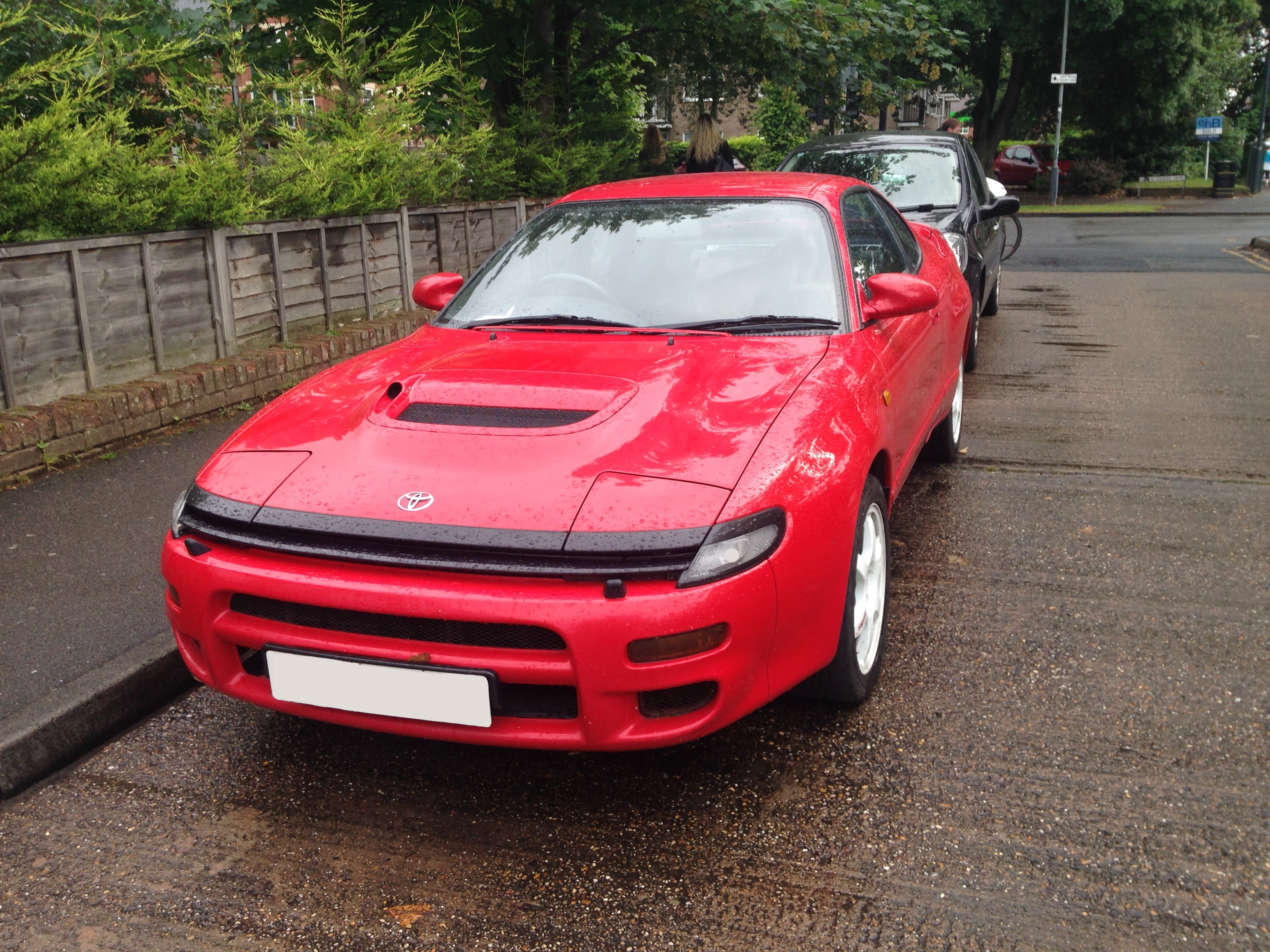 1992 Toyota Celica GT-Four Carlos Sainz Limited Edition (ST185), Outskirt of Royal Leamington Spa, England